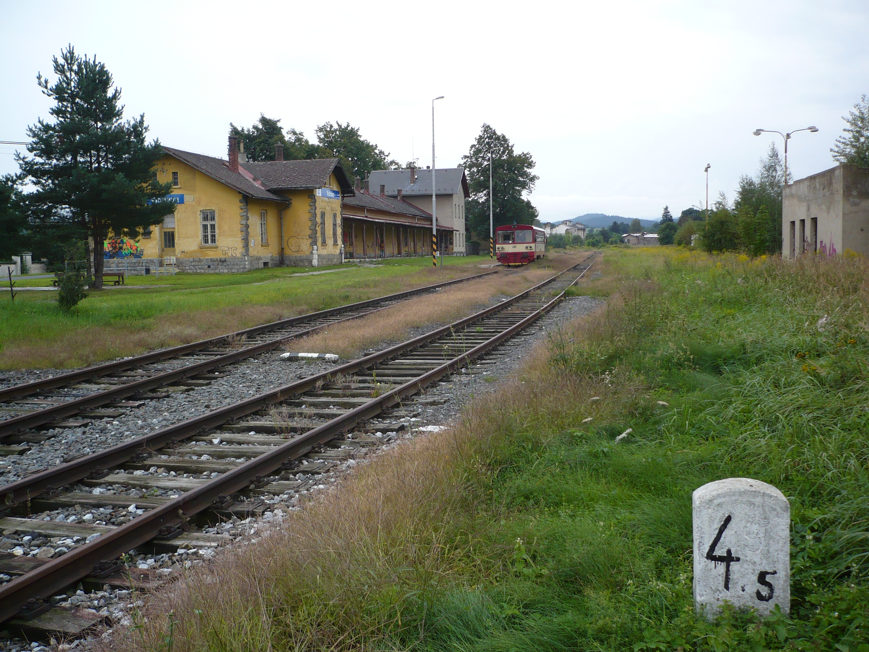 Train station in Vidnava